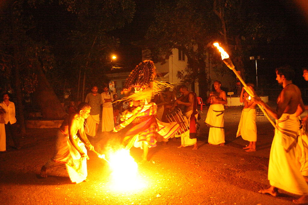 picture of performing mudiyettu